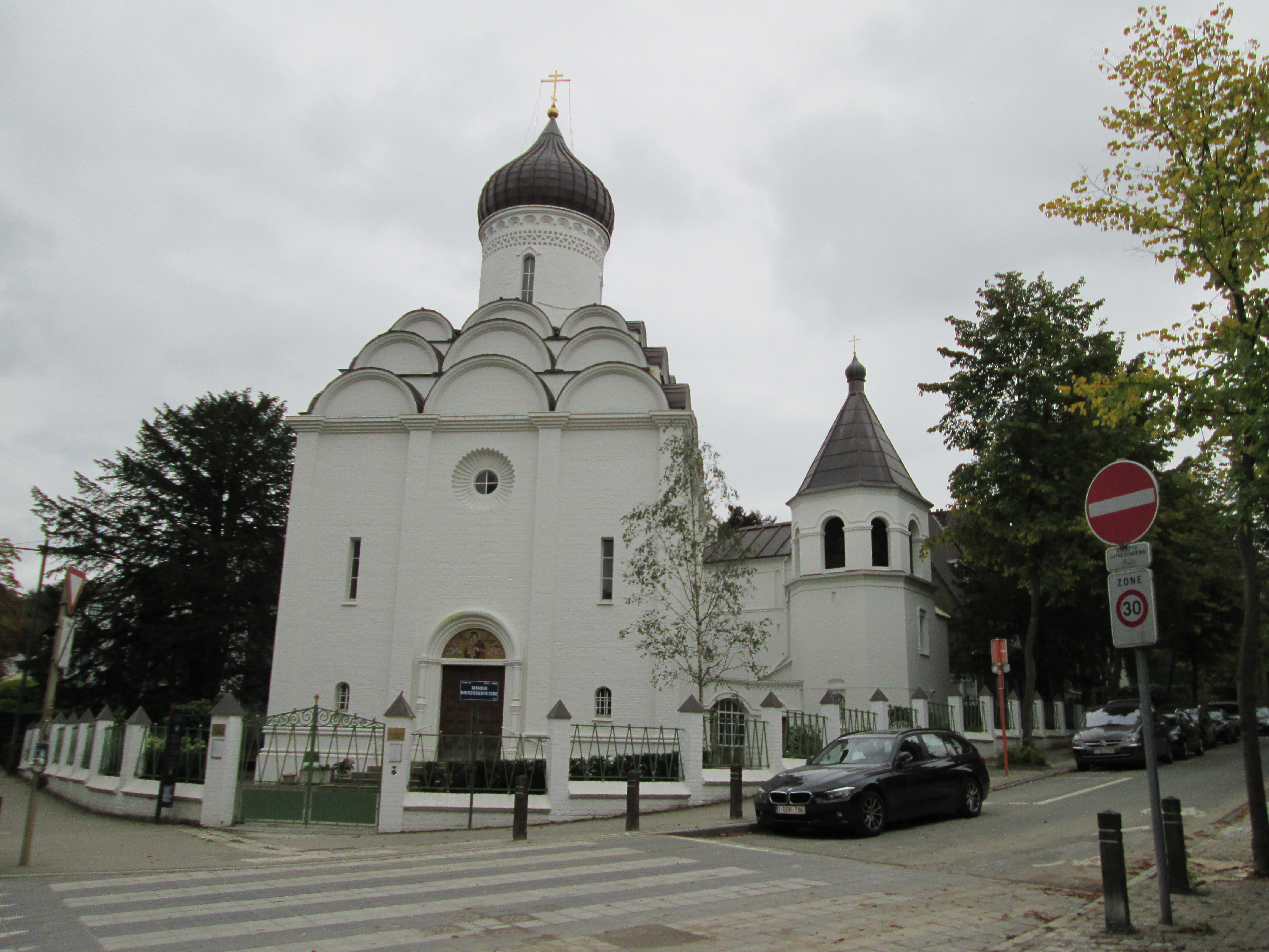 Russian Orhodox Church of Saint Job